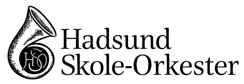 Official logo of the Hadsund Skole-Orkester